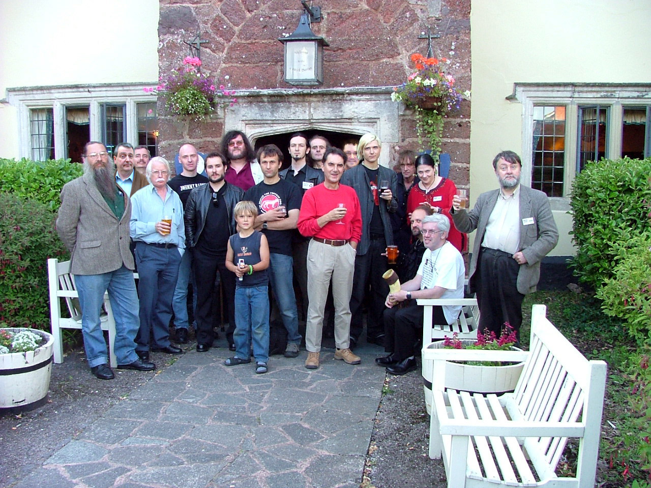 A group photograph of the speakers at the 2005 event